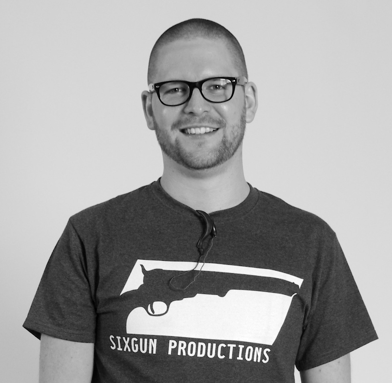 Fabian Scherschel photo, wearing Sixgun Productions t-shirt, by Tony Whitmore